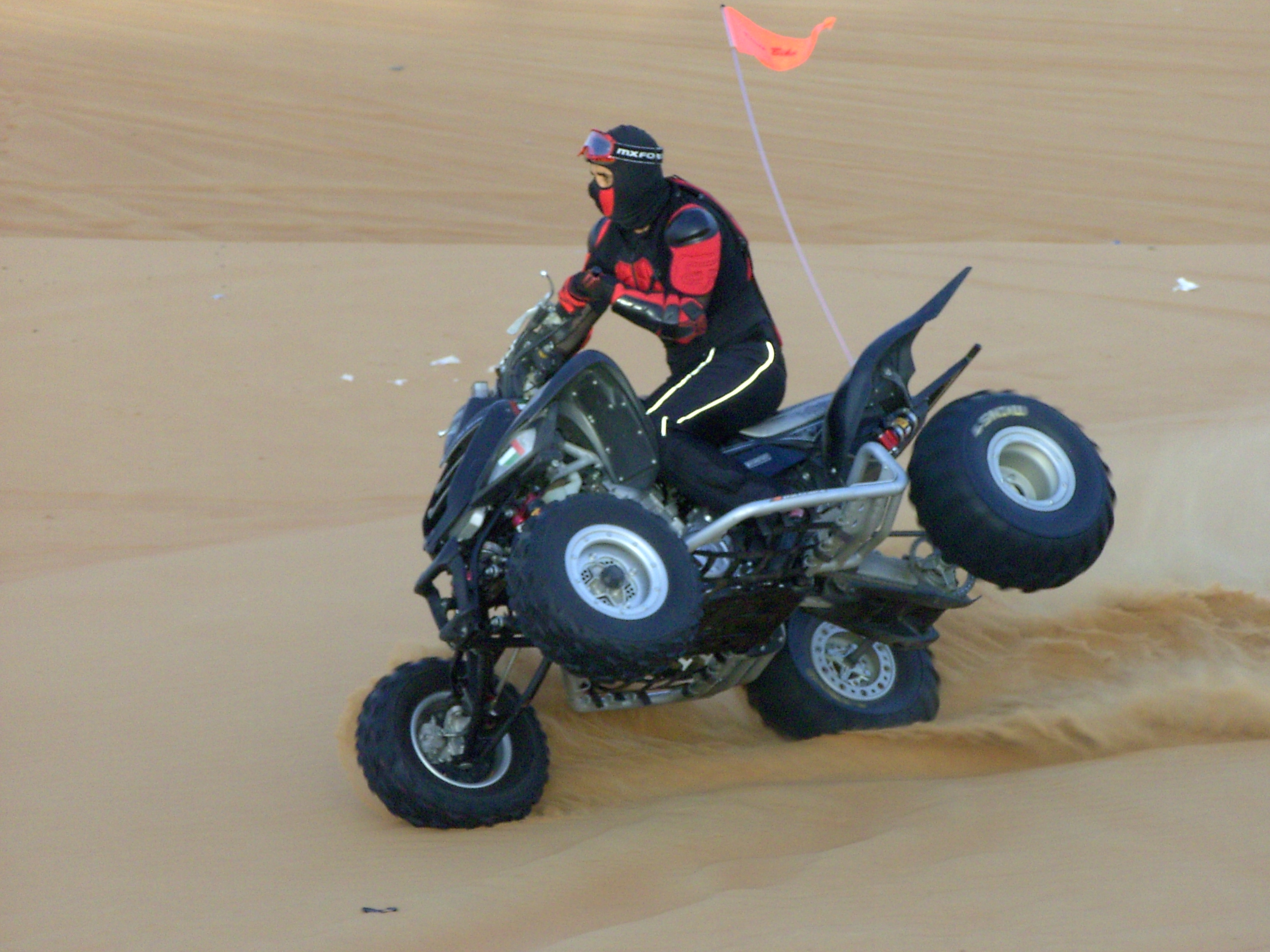 Quad bike doing two-wheel trick